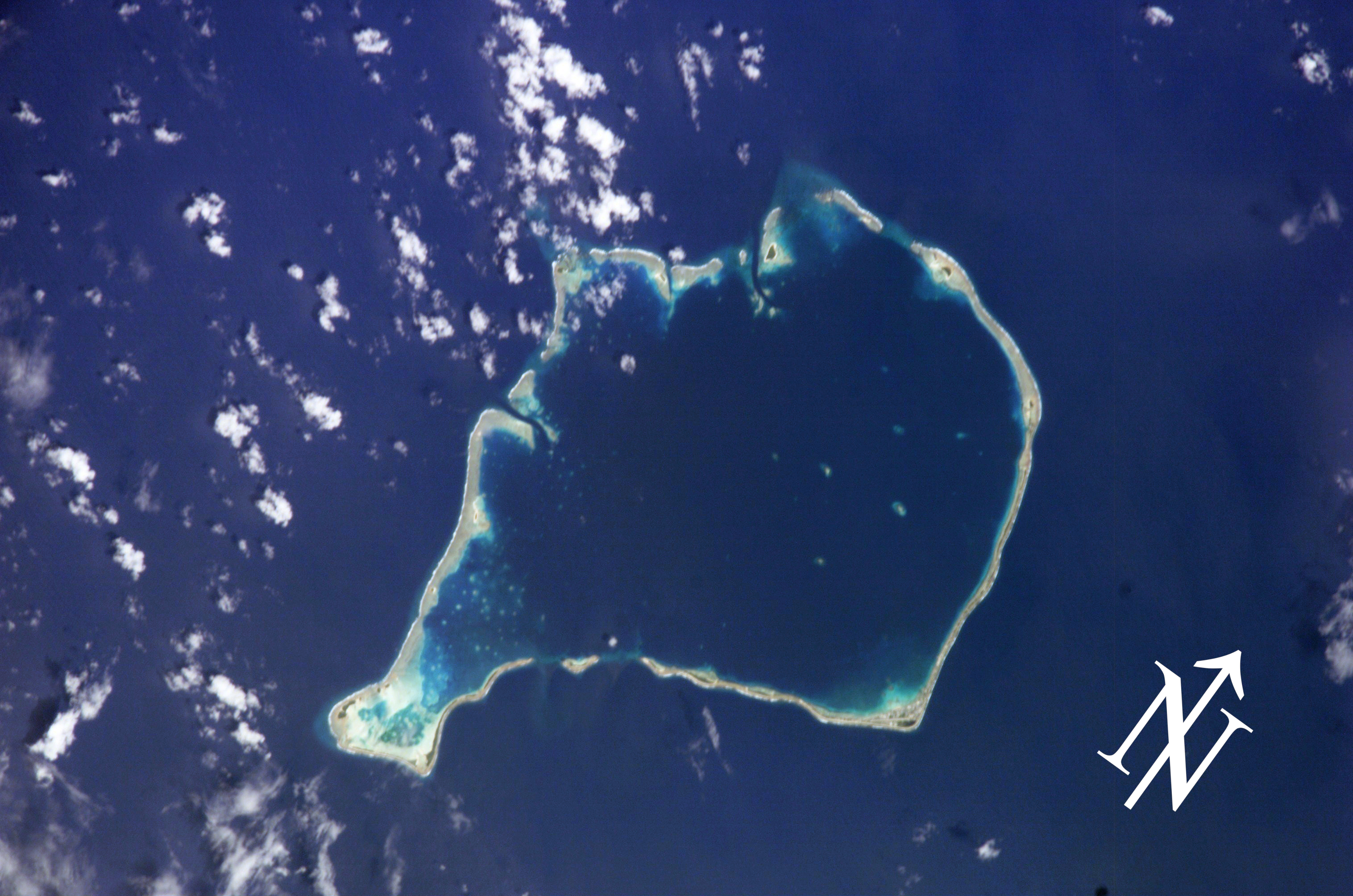 Funafuti (Tuvalu) from space